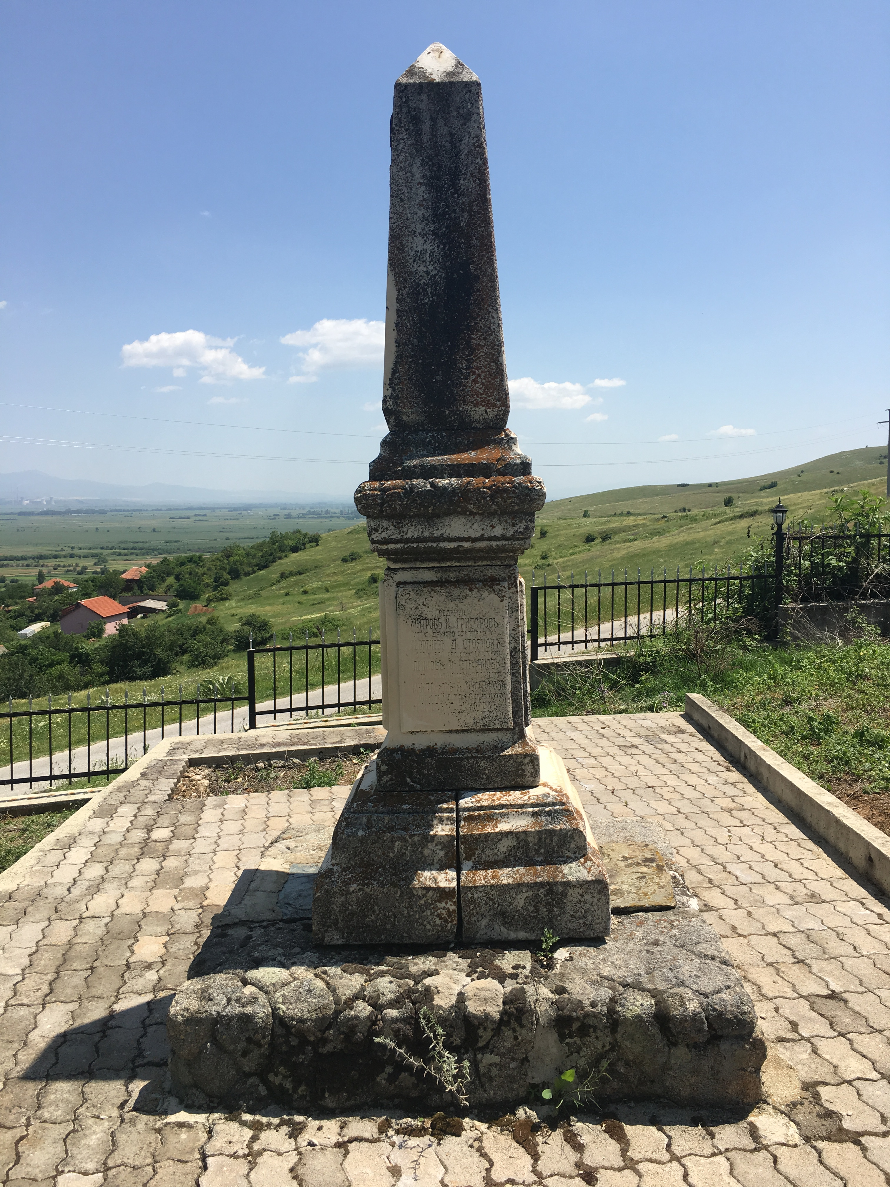 A monument in St. Athanasius Church's yard in the village of Beranci